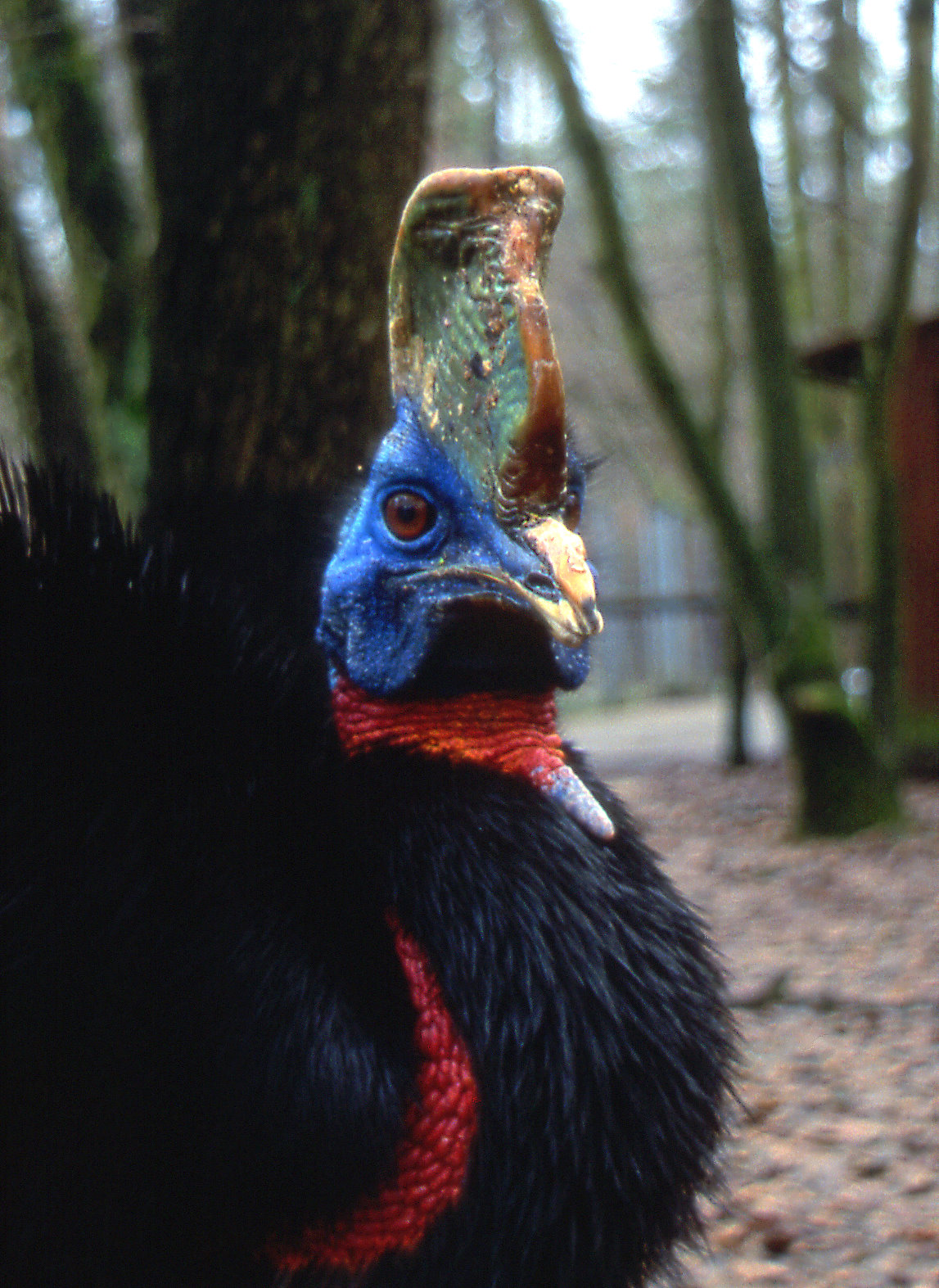 Casuarius unappendiculatus Blyth, 1860